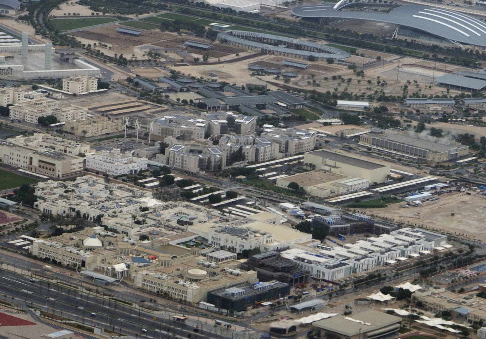 A U.S. Air Force F-15E Strike Eagle assigned to the 494th Expeditionary Fighter Squadron, conducts a formation fly over honoring Qatar National Day, Doha, Qatar Dec. 18, 2019. Qatar National Day is an annual holiday for Qataris to commemorate their national identity and history, and allows them to remember how their national unity was achieved. This year’s Qatar National Day celebration included a parade featuring massive fire work displays, military aircraft flyovers, and many other demonstrations of national unity. (U.S. Air Force Photo by SSgt Bethany La Ville)